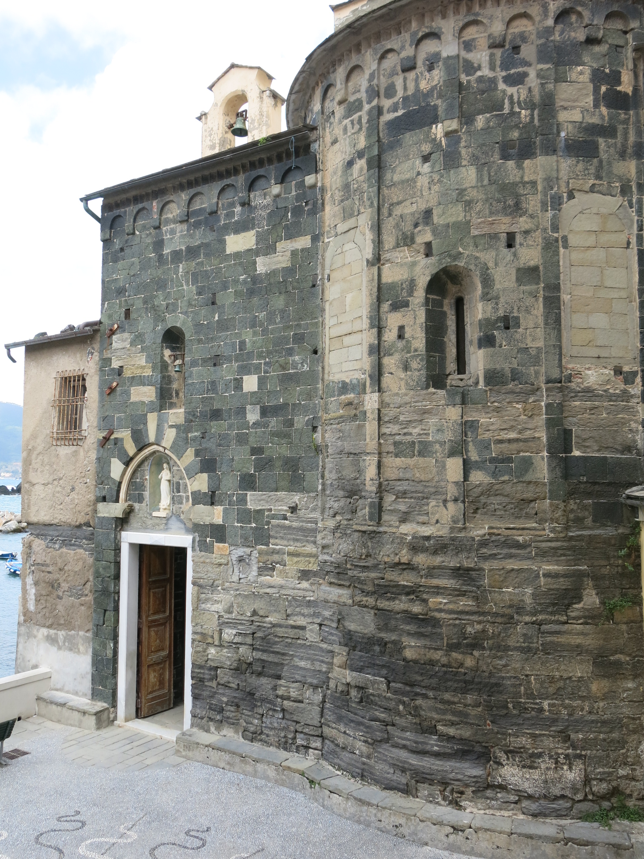 Apse of the church Santa Margherita in Vernazza (Liguria, Italy). The main entrance of the church is on the side of the apse.